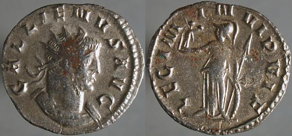 Gallienus, antoninianus, Mediolanum mint GALLIENVS AVG, radiate and curraissed bust r. LEG I MIN VI P VI F, Minerva standing, Victoria in left hand, spear in right. Shield near r. foot